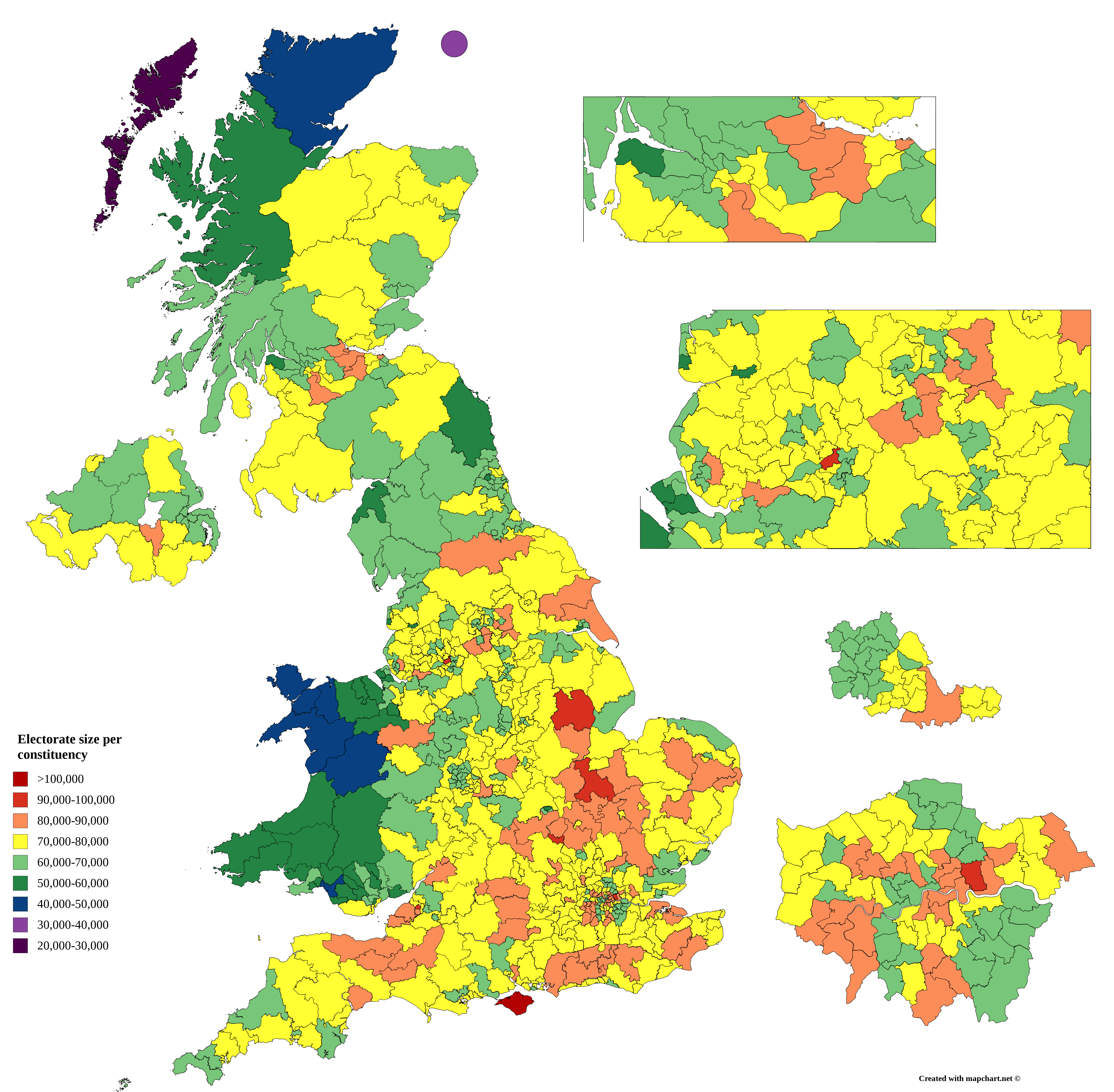 Shows amount of eligible voters in each UK house of commons constituency